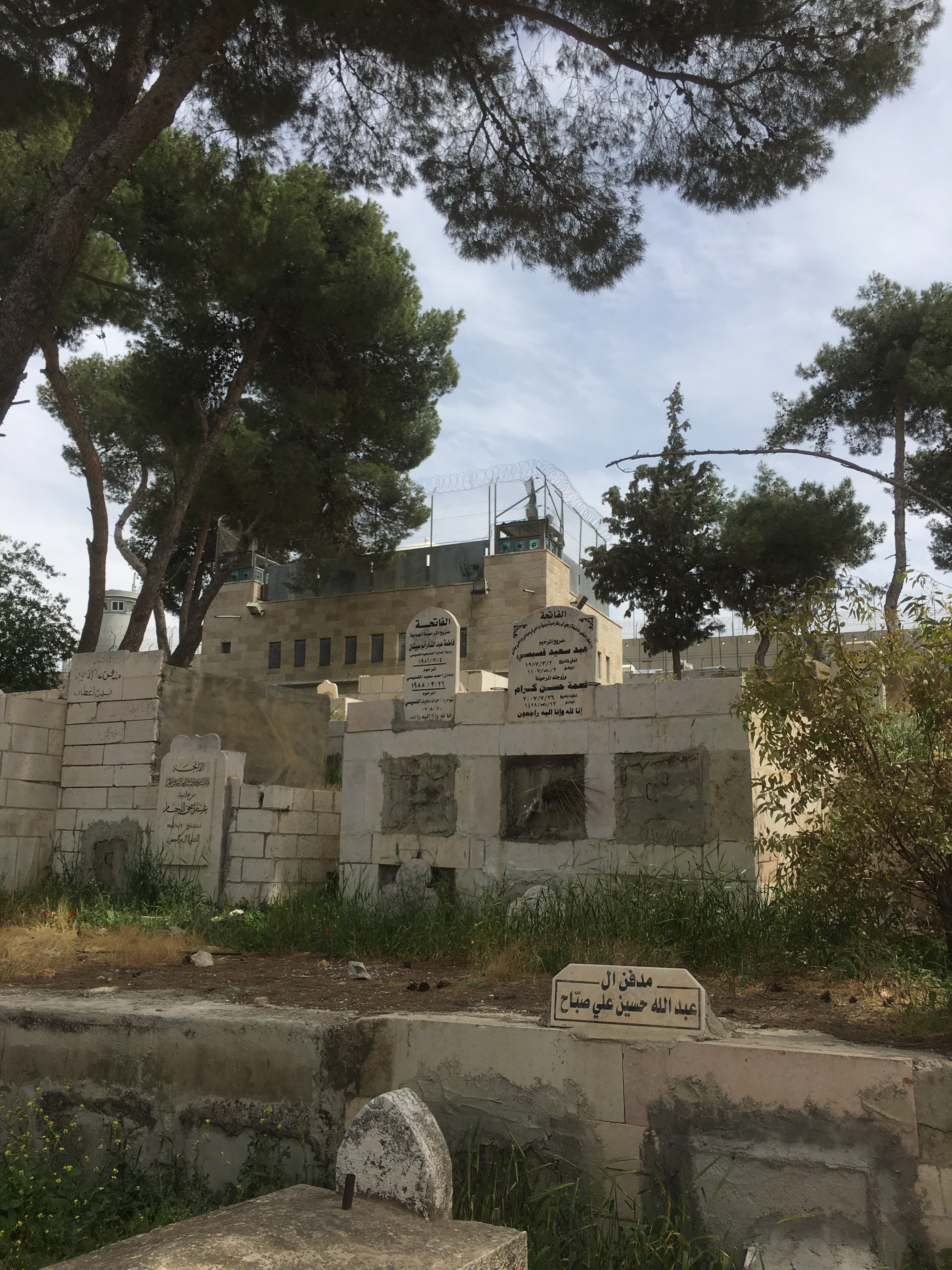 Rachel’s Tomb, Bethlehem, from the West, March 2018